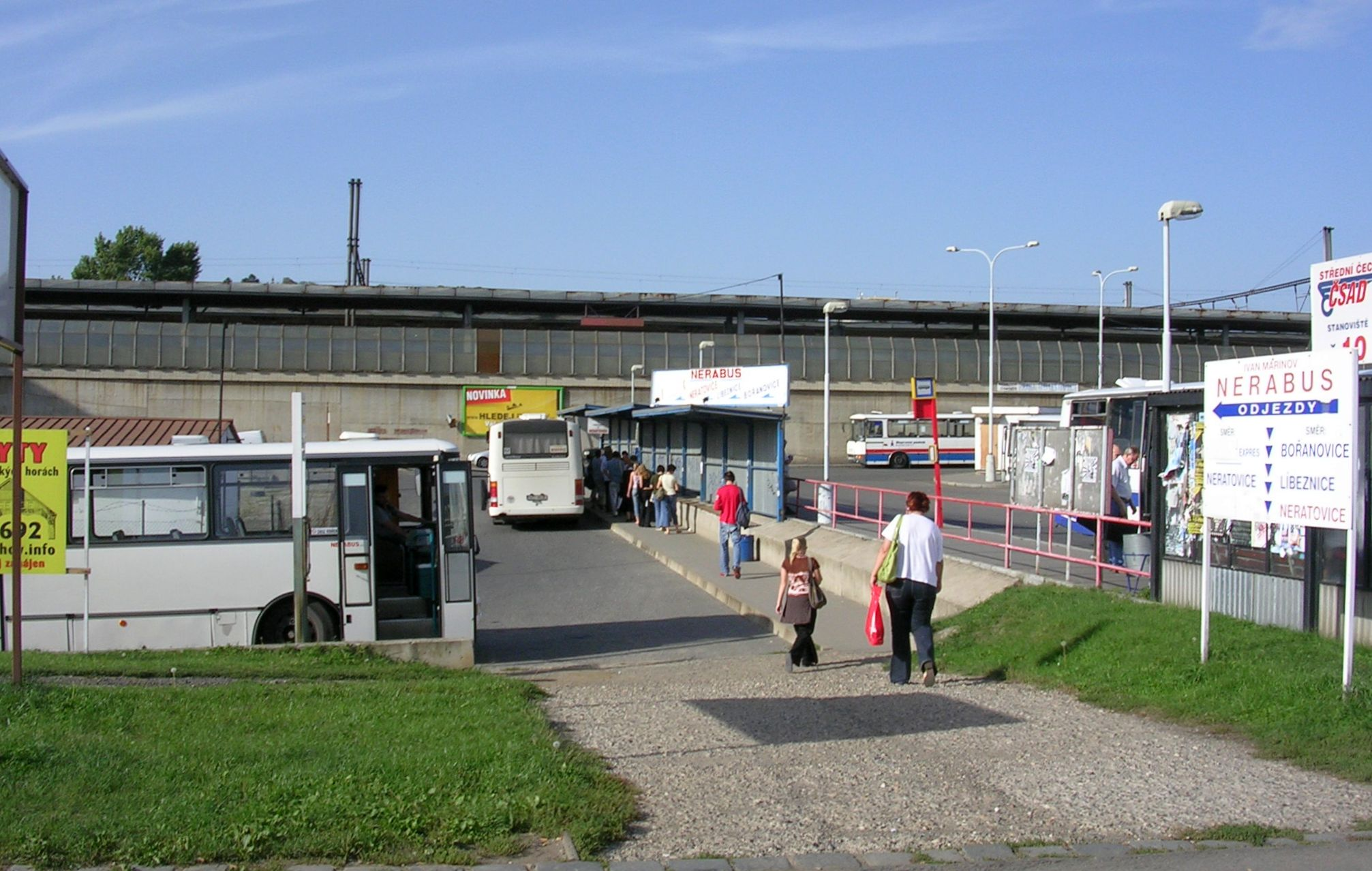 Holešovice, Prague, the Czech Republic. Nádraží Holešovice, bus station, stops of NERABUS company.